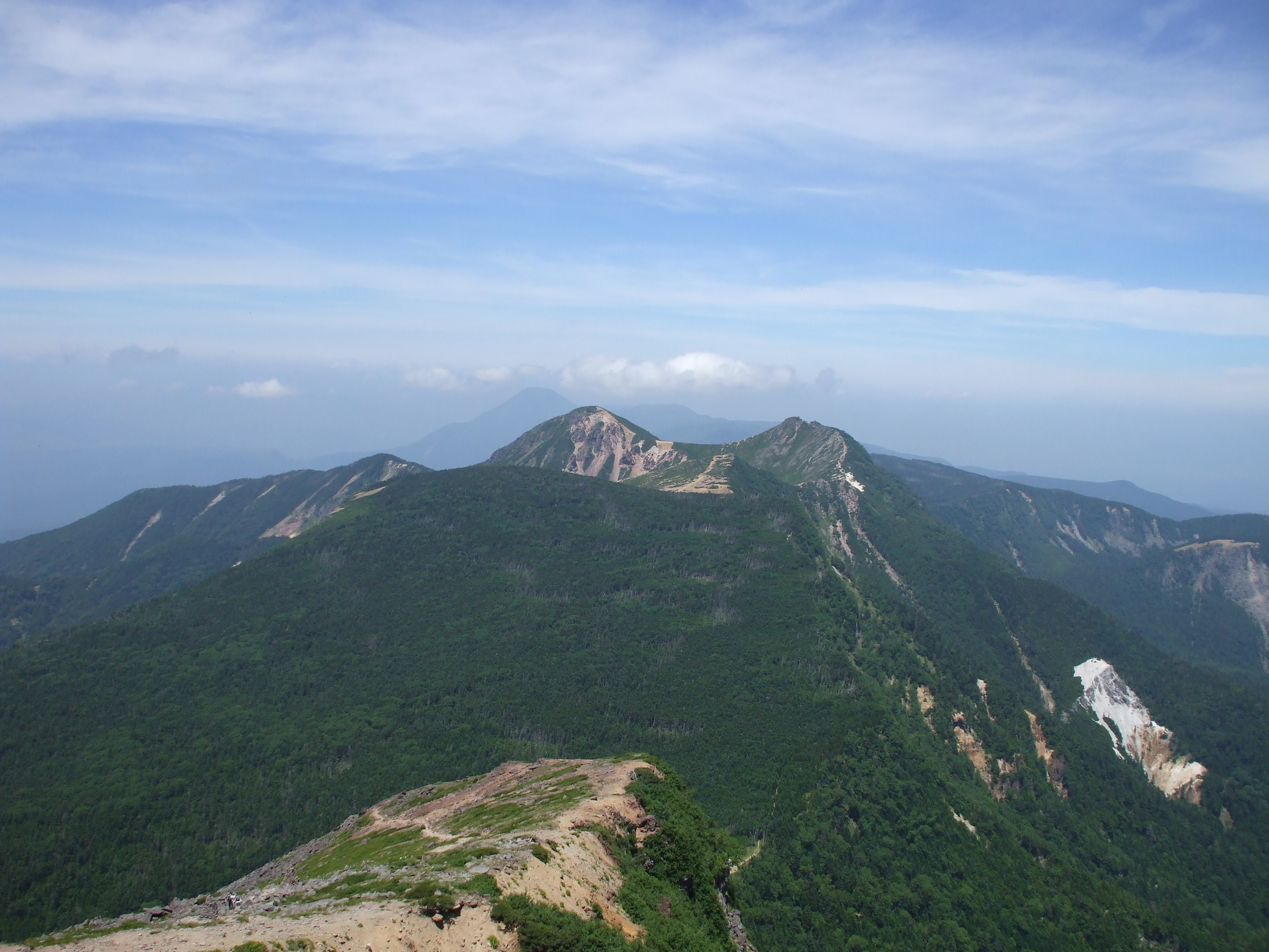 Mount Tengudake of Yatsugatake Mountains, from Mount Iōdake, Honshu, Japan.